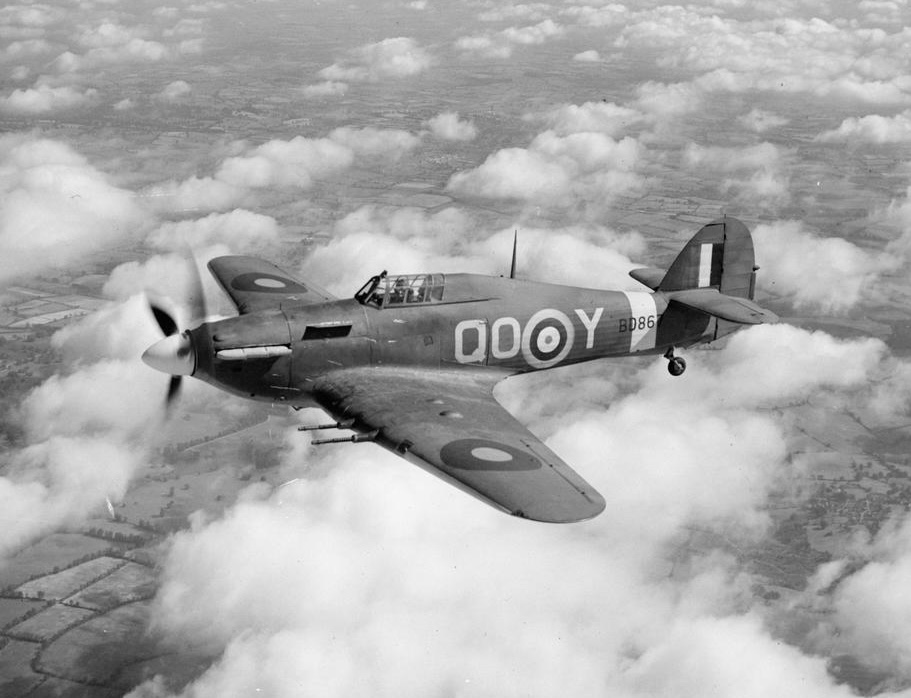 A Royal Air Force Hawker Hurricane Mk IIC (BD867 'QO-Y') of No 3 Squadron RAF based at Hunsdon, Hertfordshire (UK), in flight.